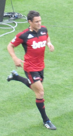 Dan Carter running on a field.